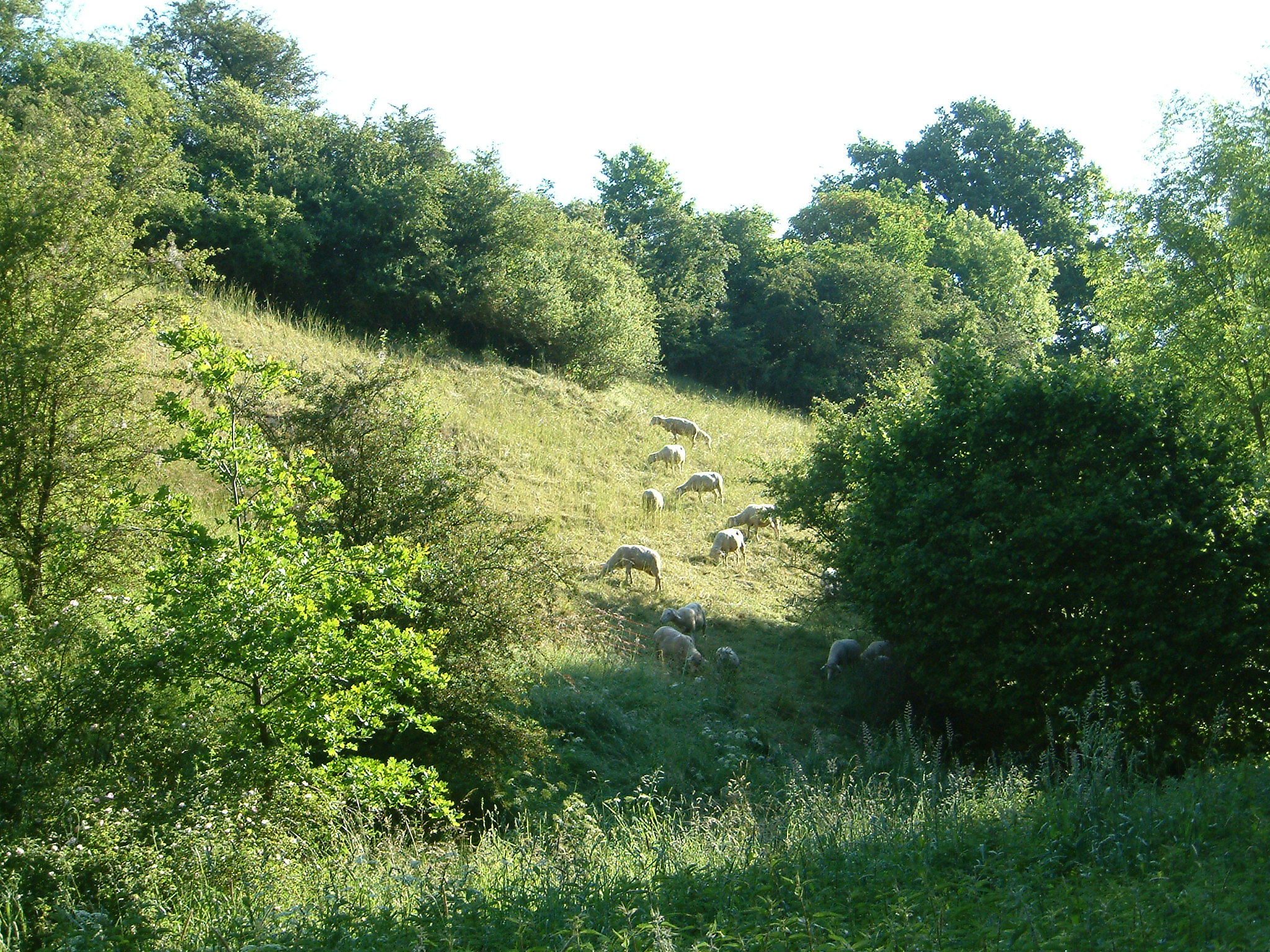 Sheep in the Kochhart valley, Baden-Württemberg, Germany.